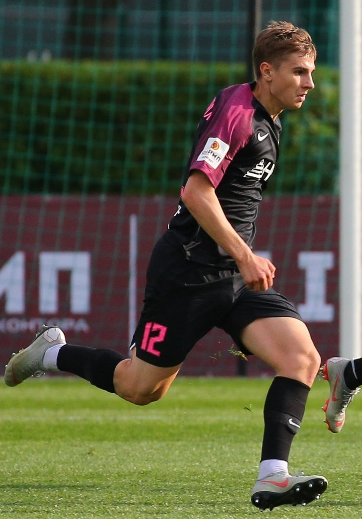 Nikita Razdorskikh with FC Yenisey Krasnoyarsk in a game against FC Chertanovo Moscow.